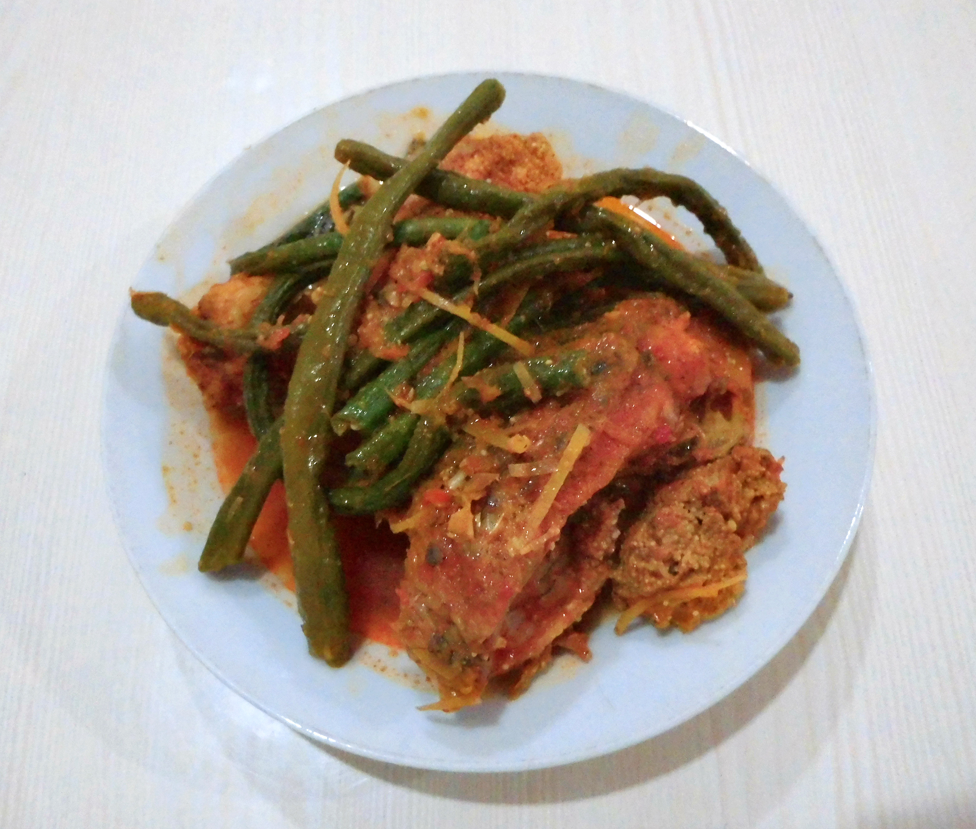 Carp Arsik, spicy fish dish of Batak cuisine, North Sumatra, Indonesia.